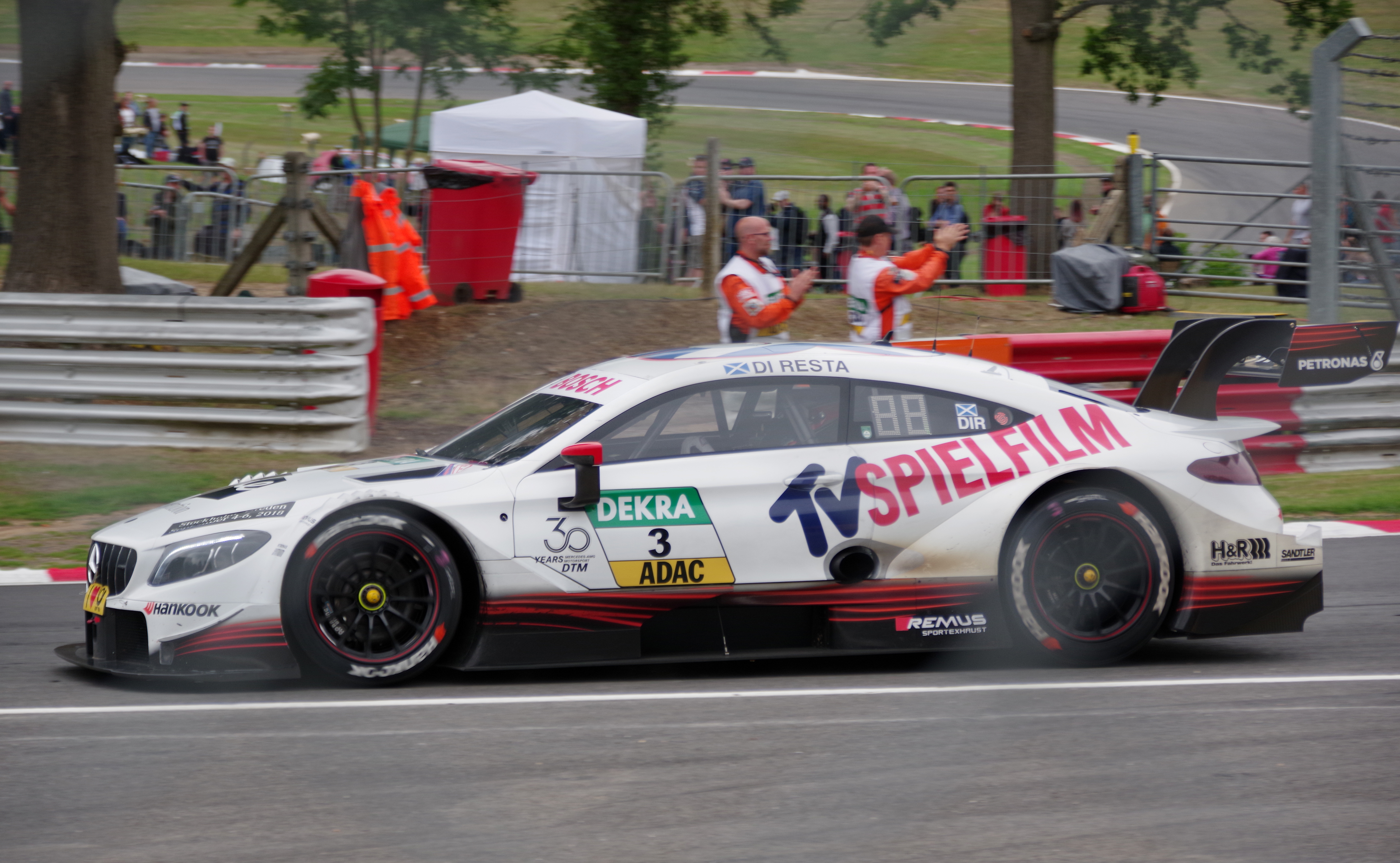 2018 Deutsche Tourenwagen Masters, Brands Hatch.